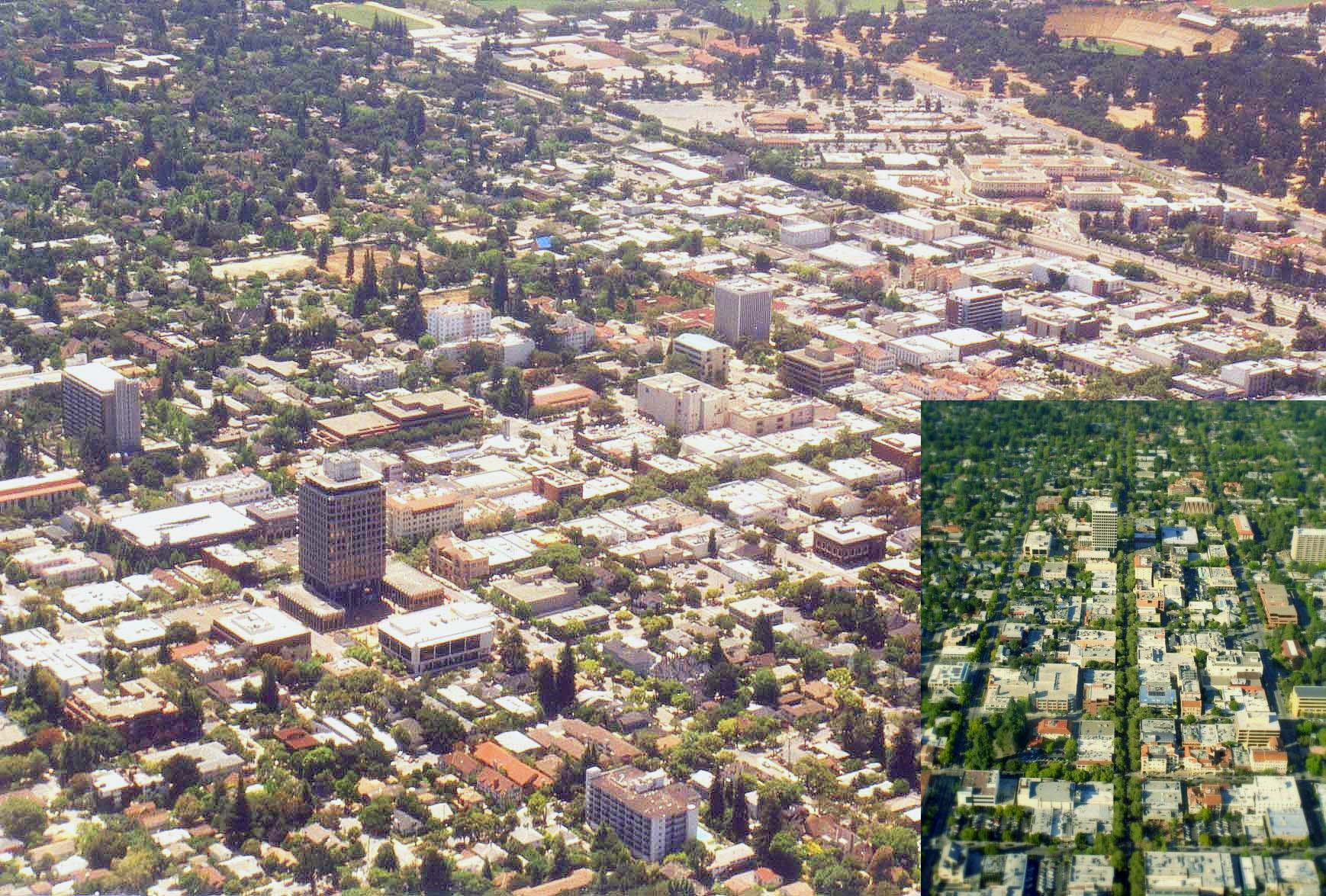 Aerial photo of University Avenue Downtown, Palo Alto; Stanford.